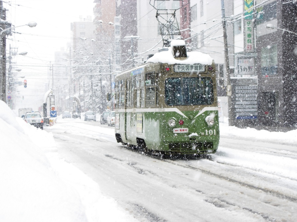 M101 of Sapporo Streetcar approaching Nishi Hacchōme St. in Chūō-ku, Sapporo, Japan. Nikon Coolpix 5200